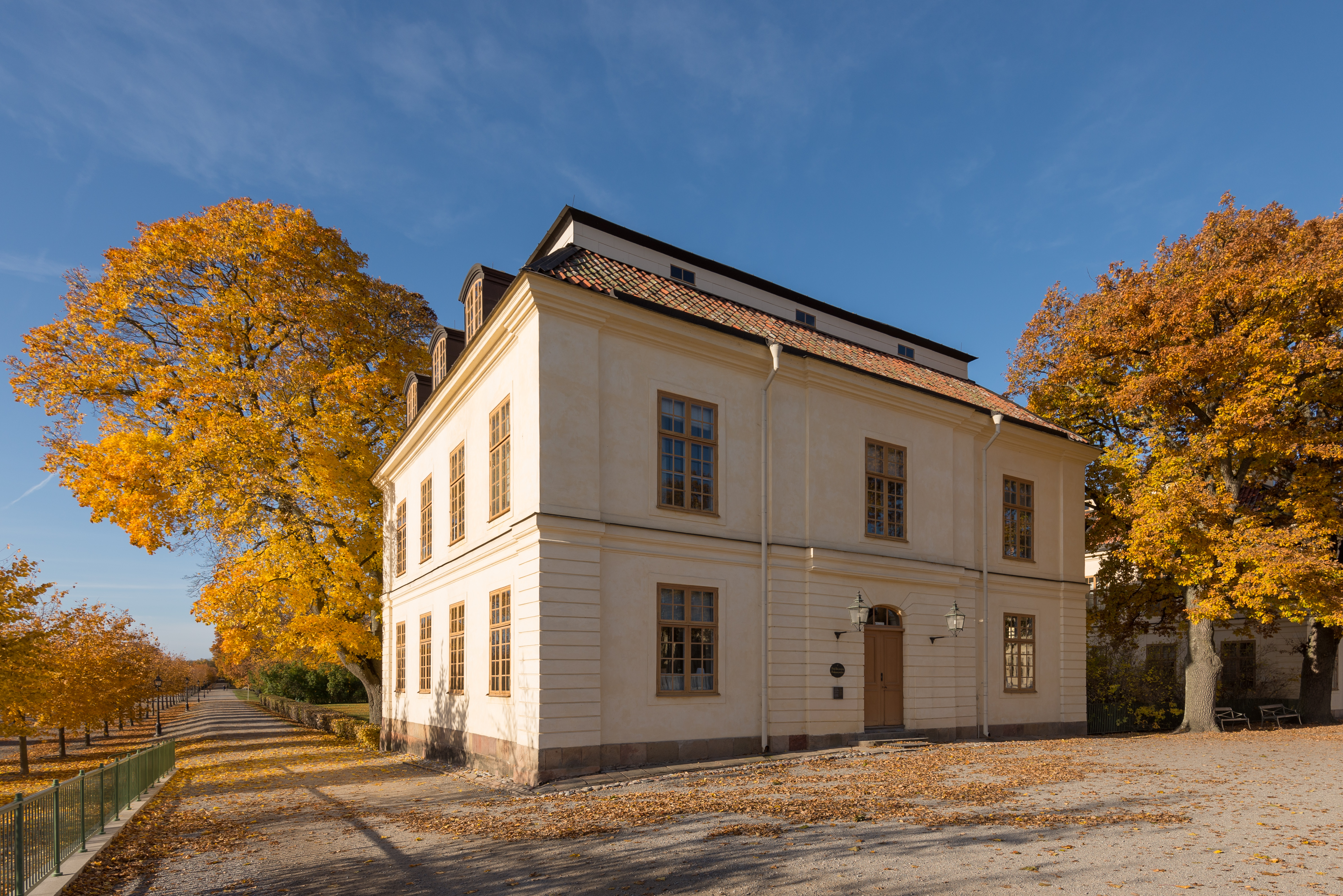 Drottningens paviljong (The Queen's pavilion) in Drottningholm. Part of Royal Domain of Drottningholm - World Heritage Site.